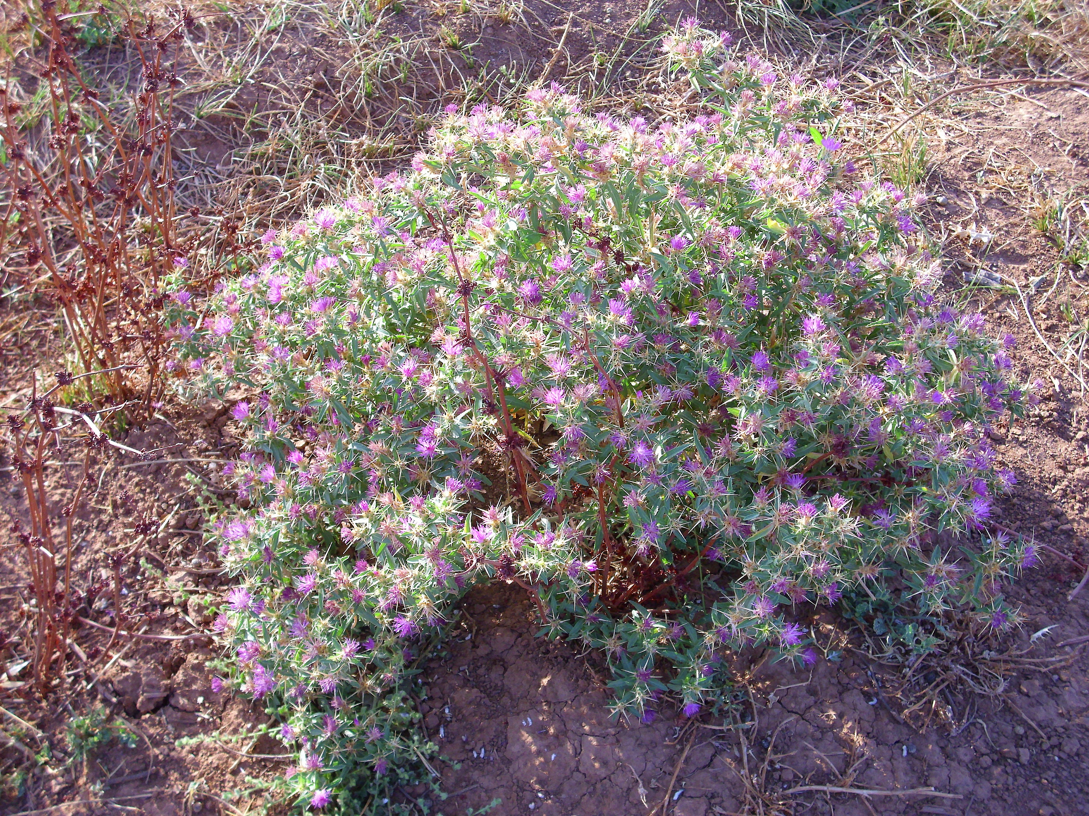 Centaurea calcitrapa habit, Sierra Madrona, Spain